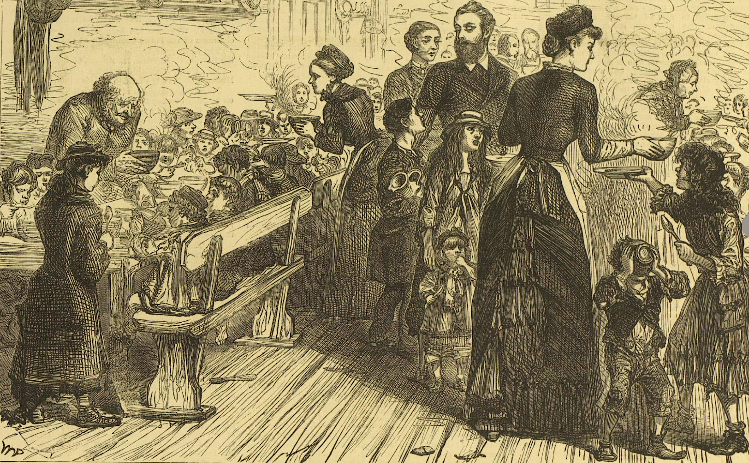 Engraving in Illustrated London News. The charity run by this couple was endorsed in glowing terms. It was afterwards exposed as a scam in Truth.